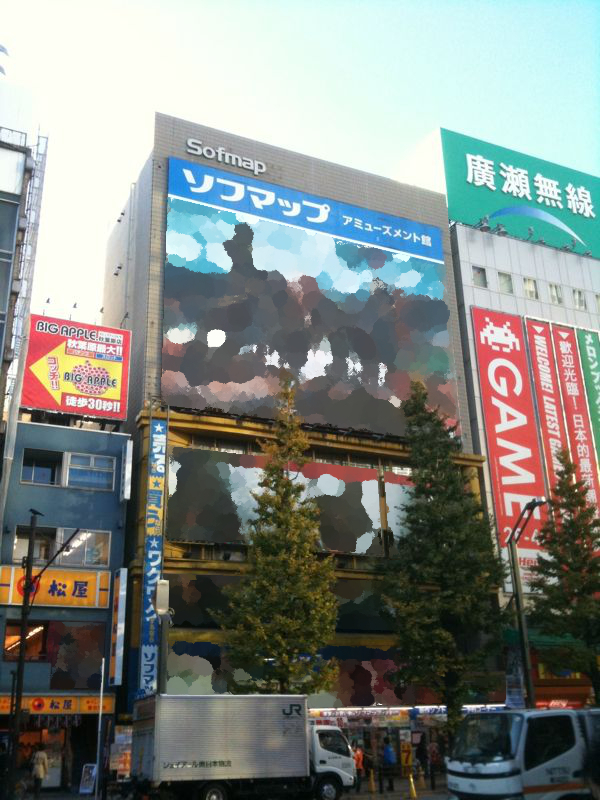 Sofmap Amusement-kan (Amusement Store) in Akihabara, Tokyo, Japan.